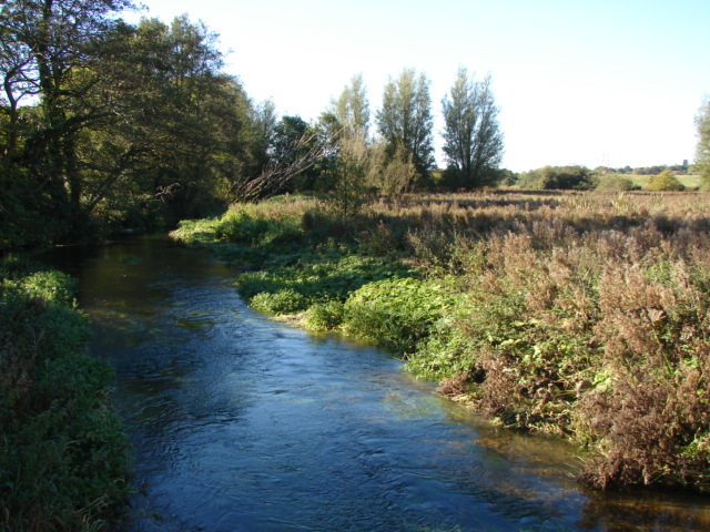 River Nar at Castle Acre 2 Looking south southwest.